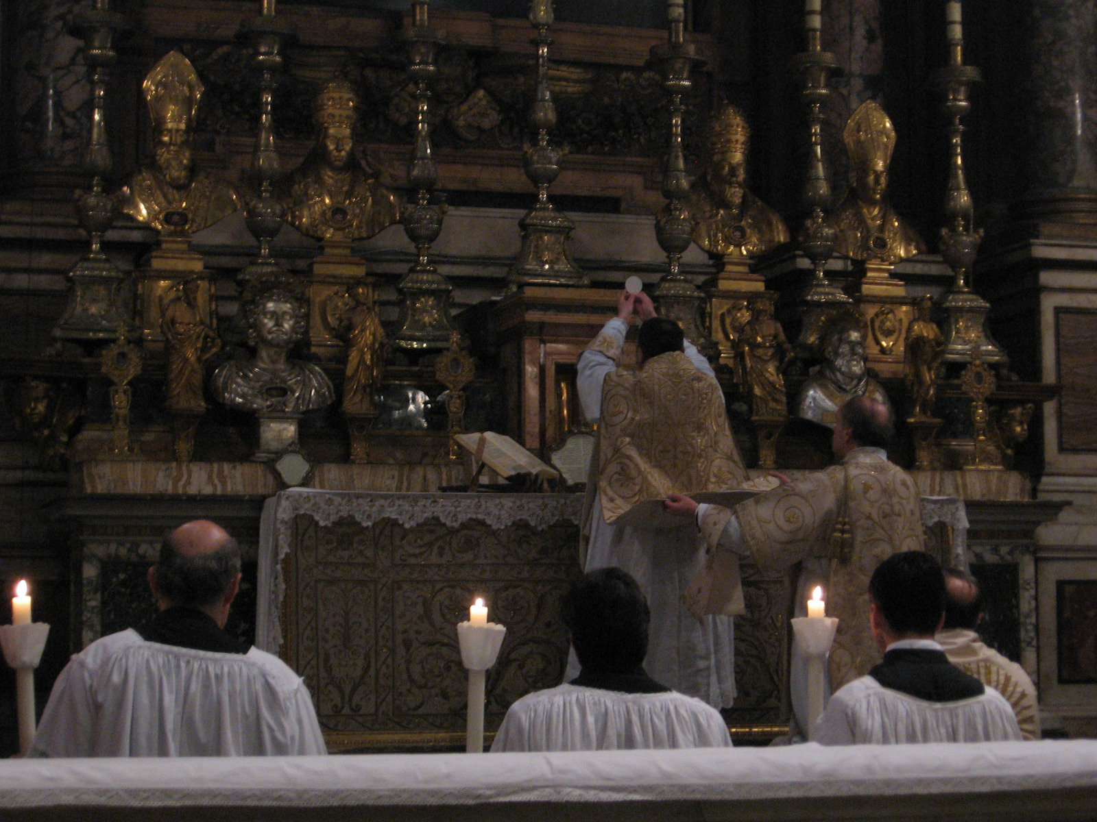 Elevation during a Tridentine Mass